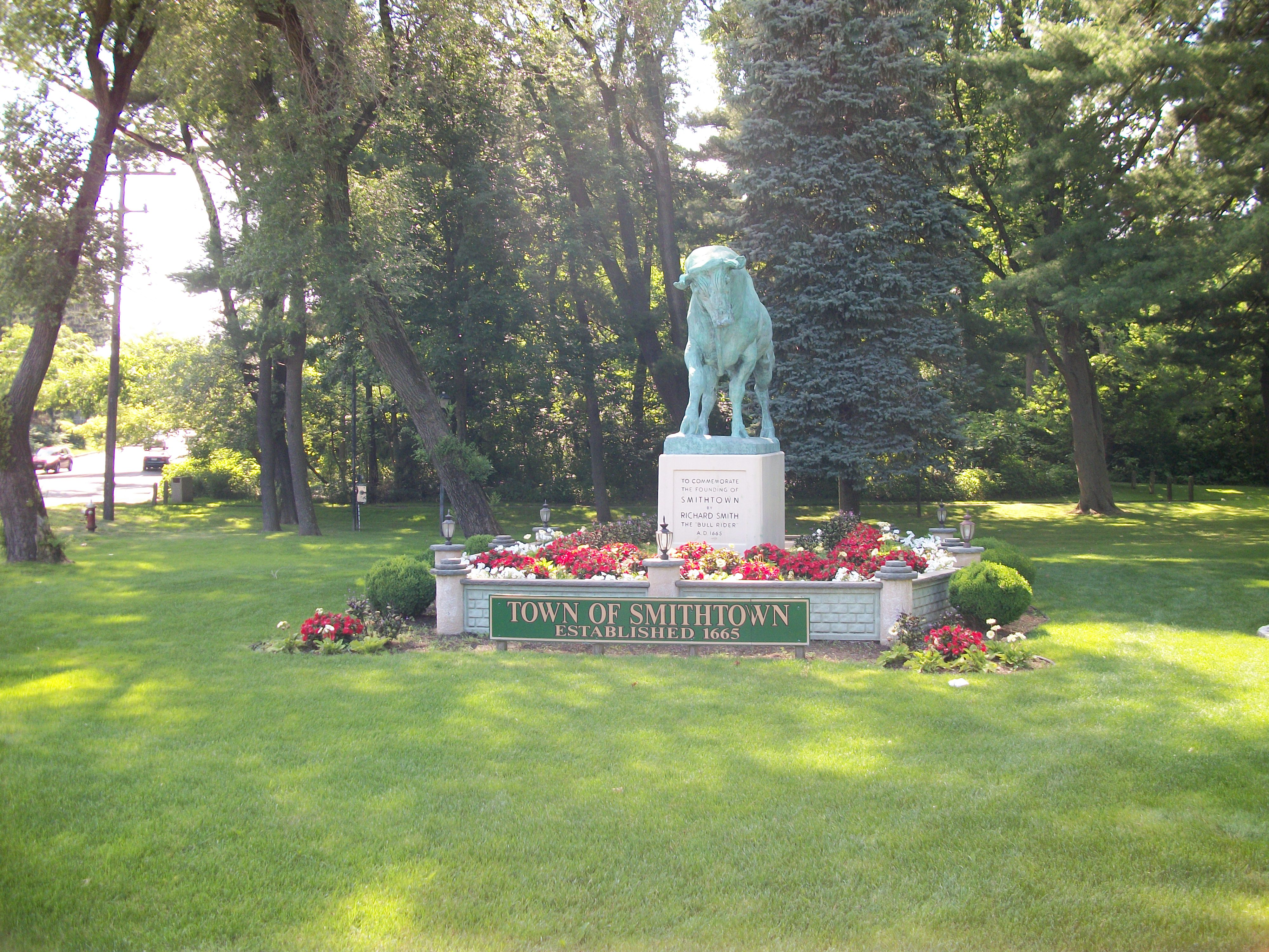 A statue of the legendary Smithtown Bull at the west end of the multiplex with New York State Route 25(left side) and New York State Route 25A(right side) in Smithtown, New York. Local legend has it that after rescuing a Native American Chief's kidnapped daughter, colonial pioneer Richard Smith was told that the Chief would grant title to all of the land Smith could encircle in one day on a bull. This statue is supposed to represent that bull.